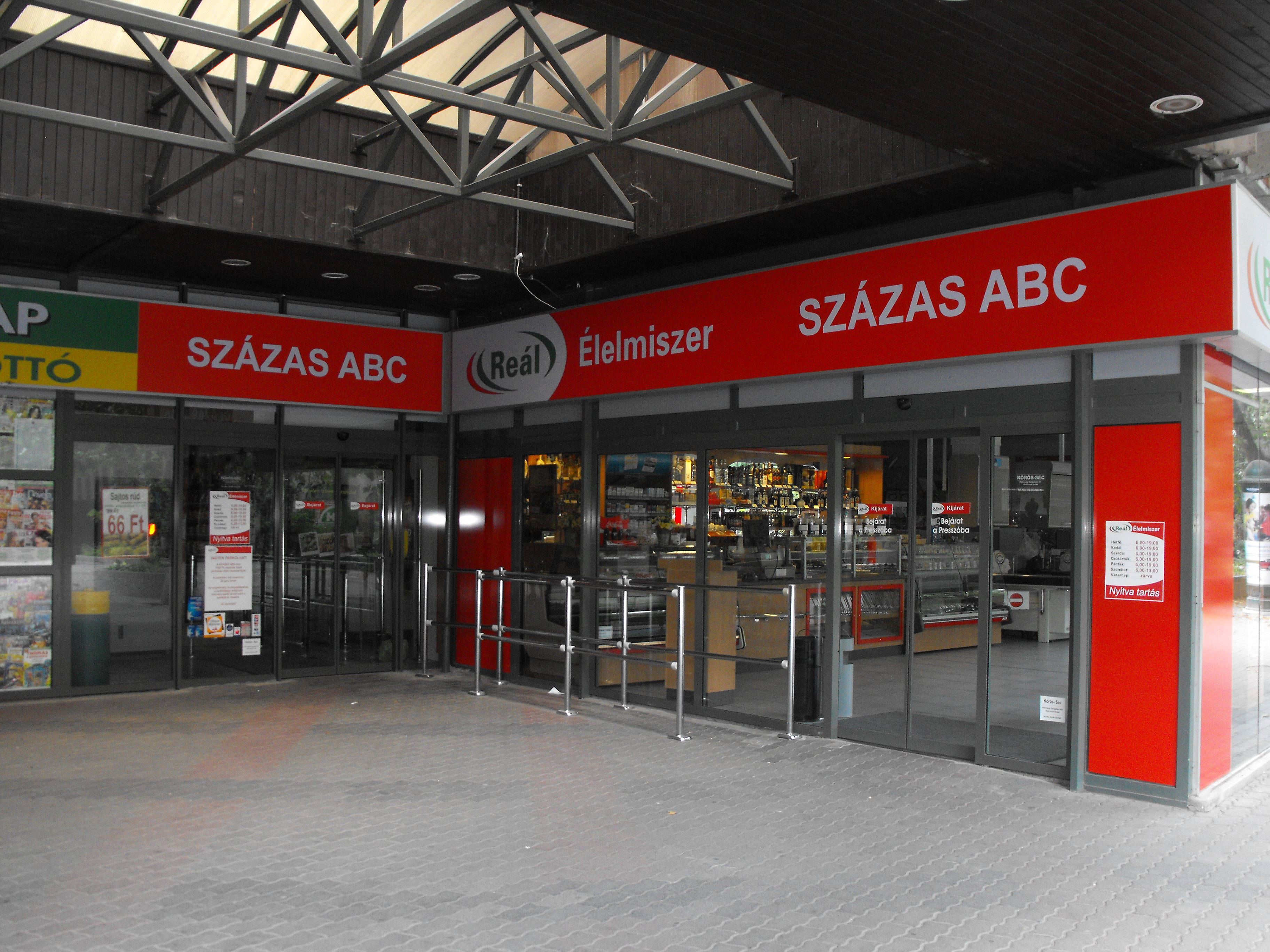 Reál supermarket in Békéscsaba, Hungary.